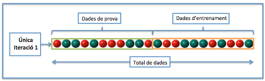 Holdout Method of cross validation